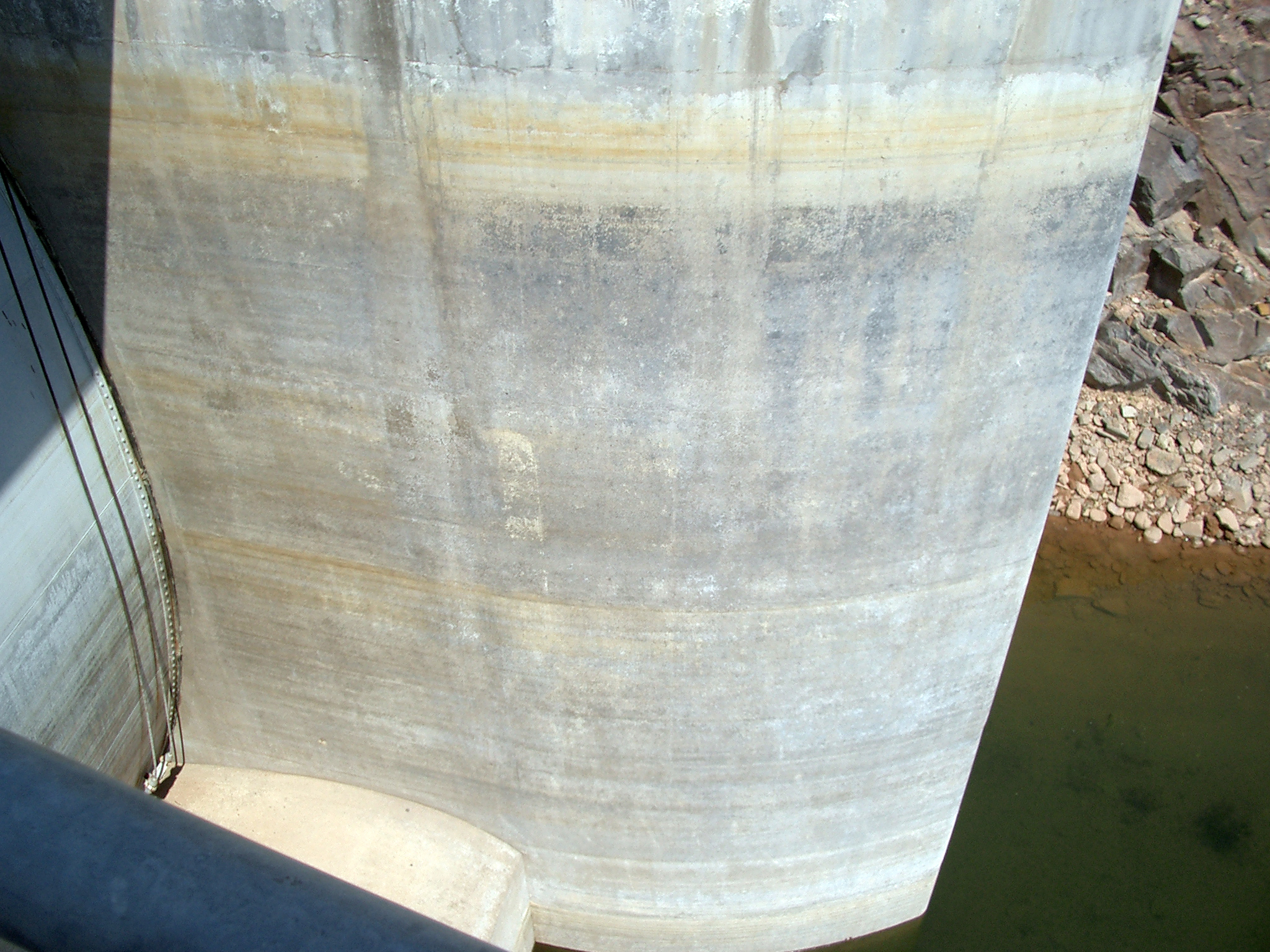 Blue Mesa Dam